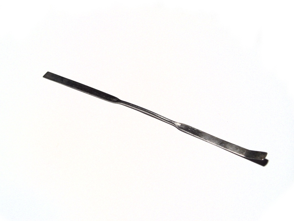 By Richard Wheeler (Zephyris) 2007.